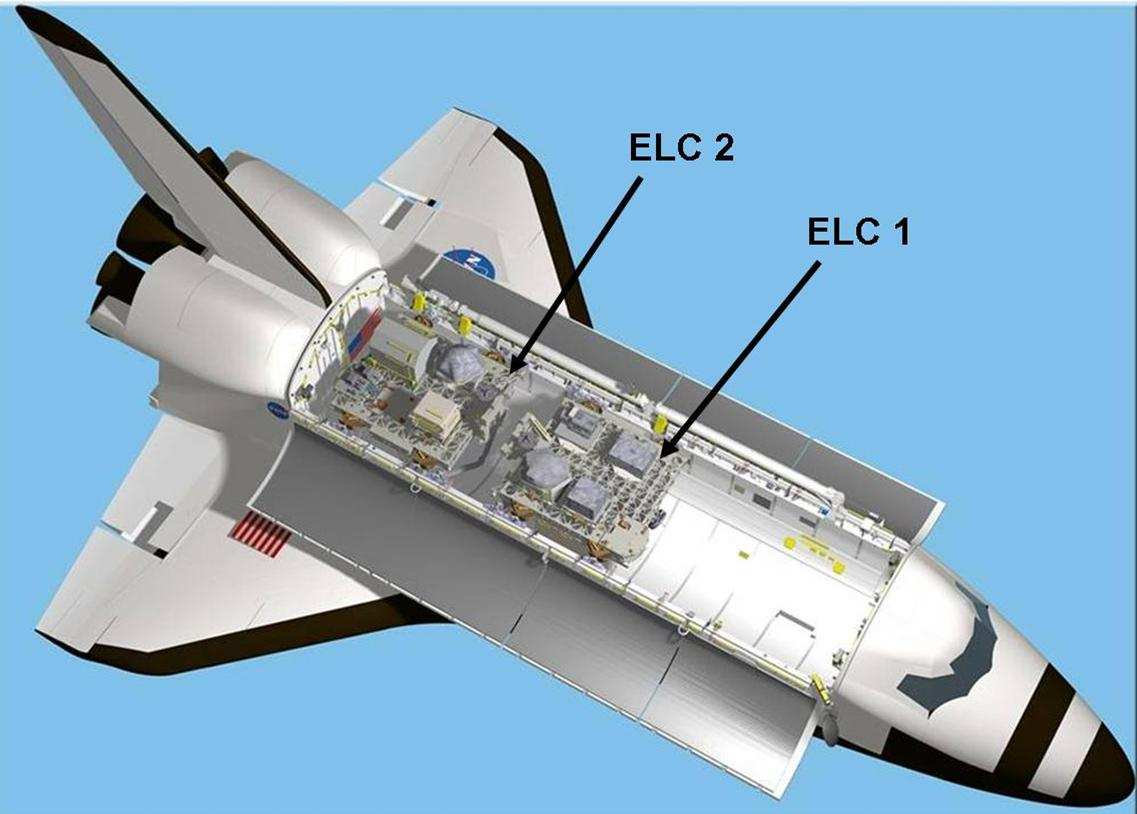 ELCs in Atlantis’ Cargo Bay